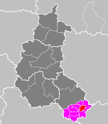 Maps of arrondissements and cantons of France: Arrondissement de Langres - Canton de Terre-Natale.PNG